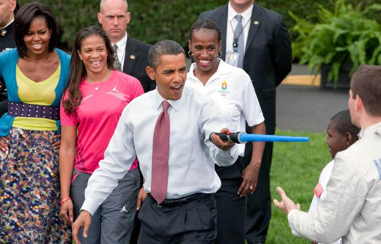 First Lady Michelle Obama, along with athletes April Holmes, center, and Jackie Joyner Kersee, right, watch as President Barack Obama participates in a fencing demonstration with Tim Morehouse on the South Lawn of the White House, Sept. 16, 2009.